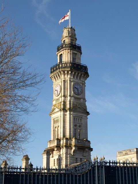 Clock tower, HMS Drake The six-stage clock tower, "an unusual component of a barracks, enriched by a wide variety of decoration", dates from 1896. "Built as part of the final phase of construction for the barracks, although the design may have been settled when the barracks was begun in the 1870s since the later buildings are consistent with the earliest" .